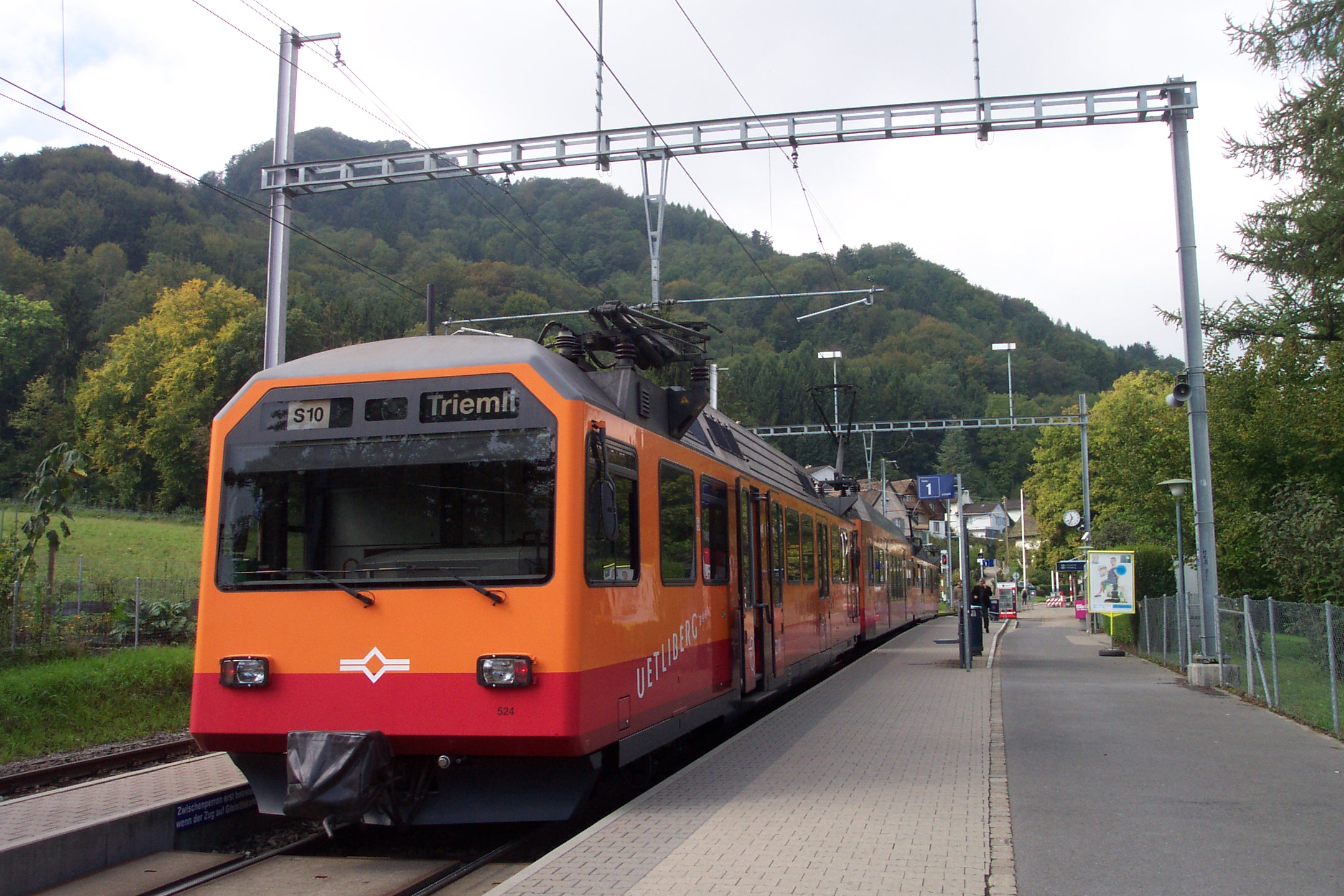 Zurich Triemli railway station, looking uphill towards the Uetliberg, with a train in the platform. For more information, please see Wikipedia article Zurich Triemli railway station.